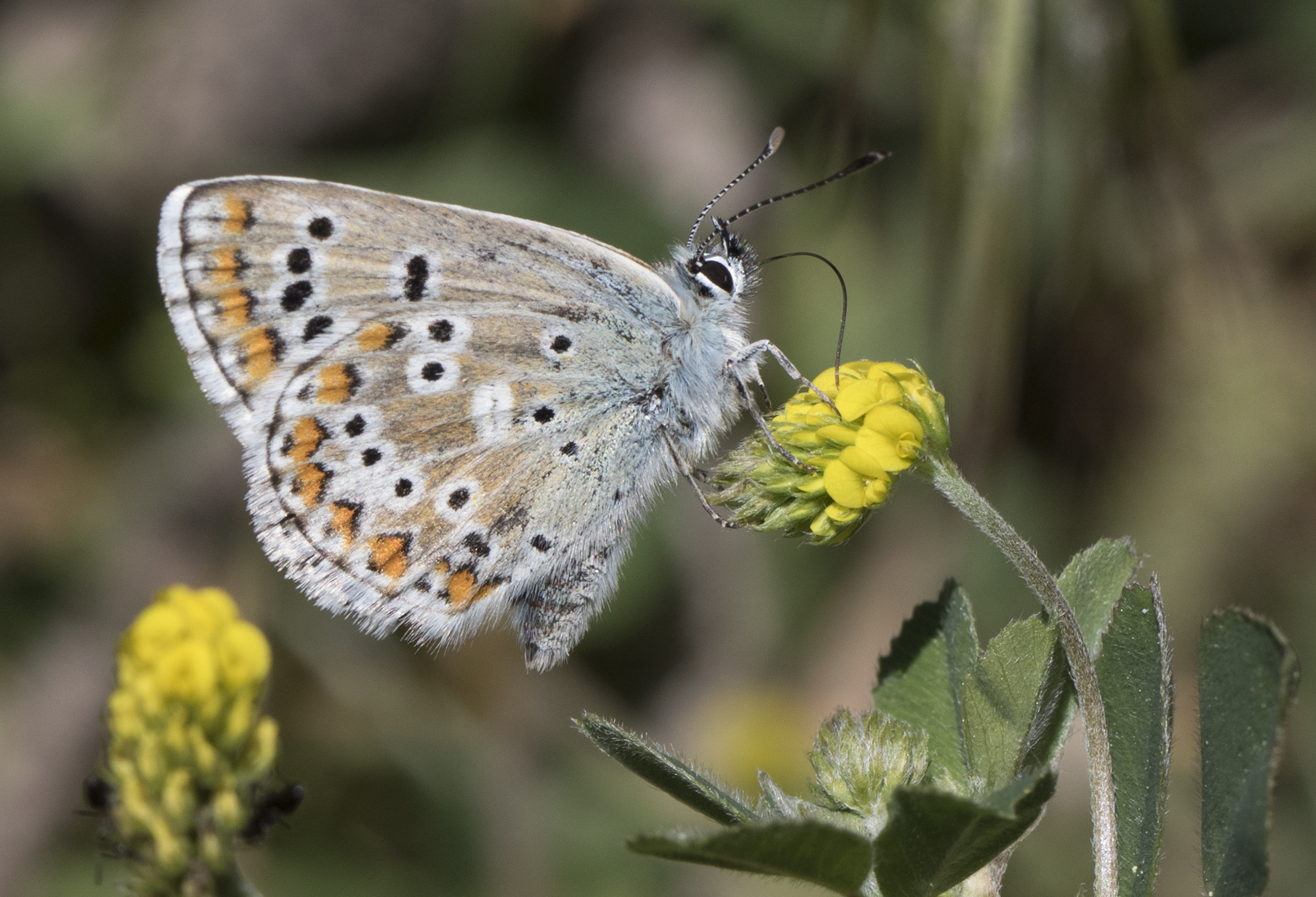 Blue Argus (Aricia anteros). Cöbük Forest, Saimbeyli - Adana, Turkey.